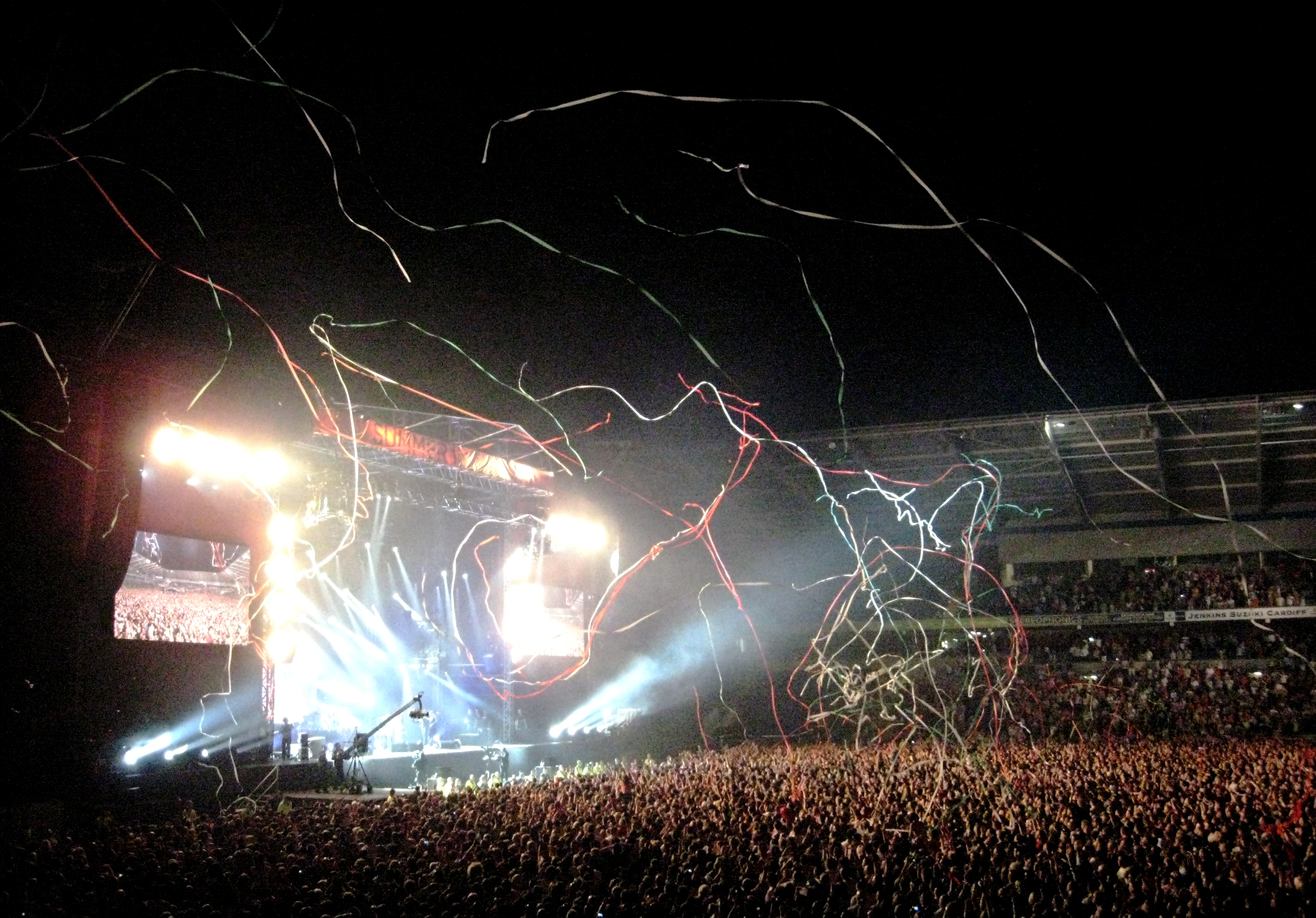 Stereophonics at Cardiff City Stadium, Cardiff, Wales